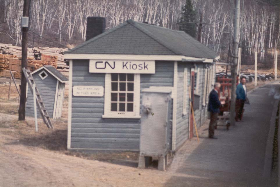 CNR station at Kiosk, Ontario, as seen from a passing train c1970's photo by Brian Westhouse